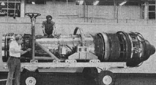 A Pratt & Whitney F401 engine for the cancelled U.S. Navy North American XFV-12 fighter.